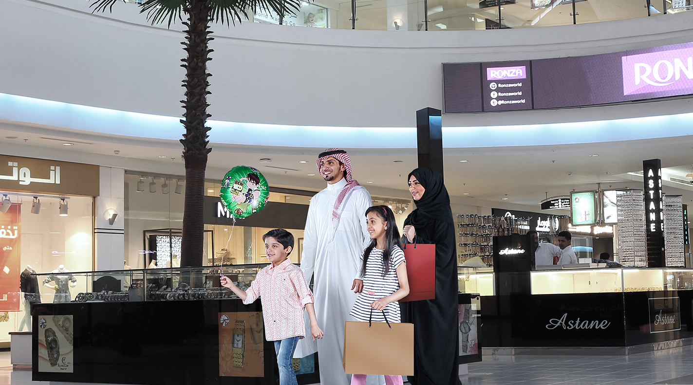 متعة التسوق في الرياض